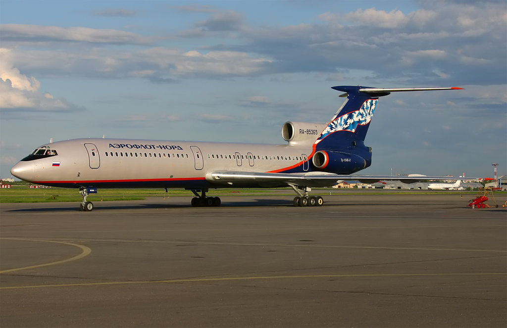 Turbolev TU-154 from Aeroflot-Nord